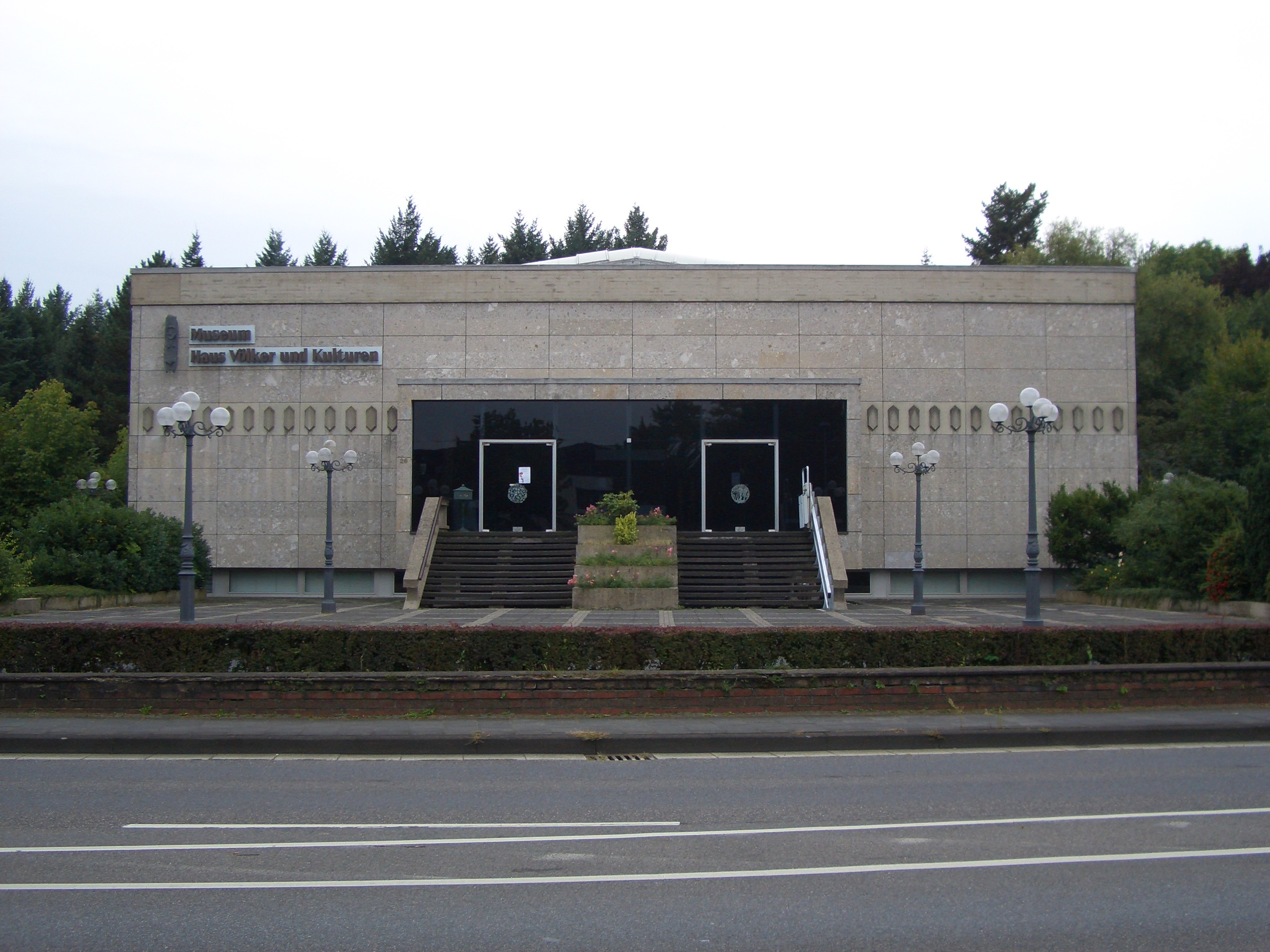 Photo of the ethnographic museum Haus Völker und Kulturen of Society of the Divine Word in Sankt Augustin, Germany, picture taken at 21st September 2008